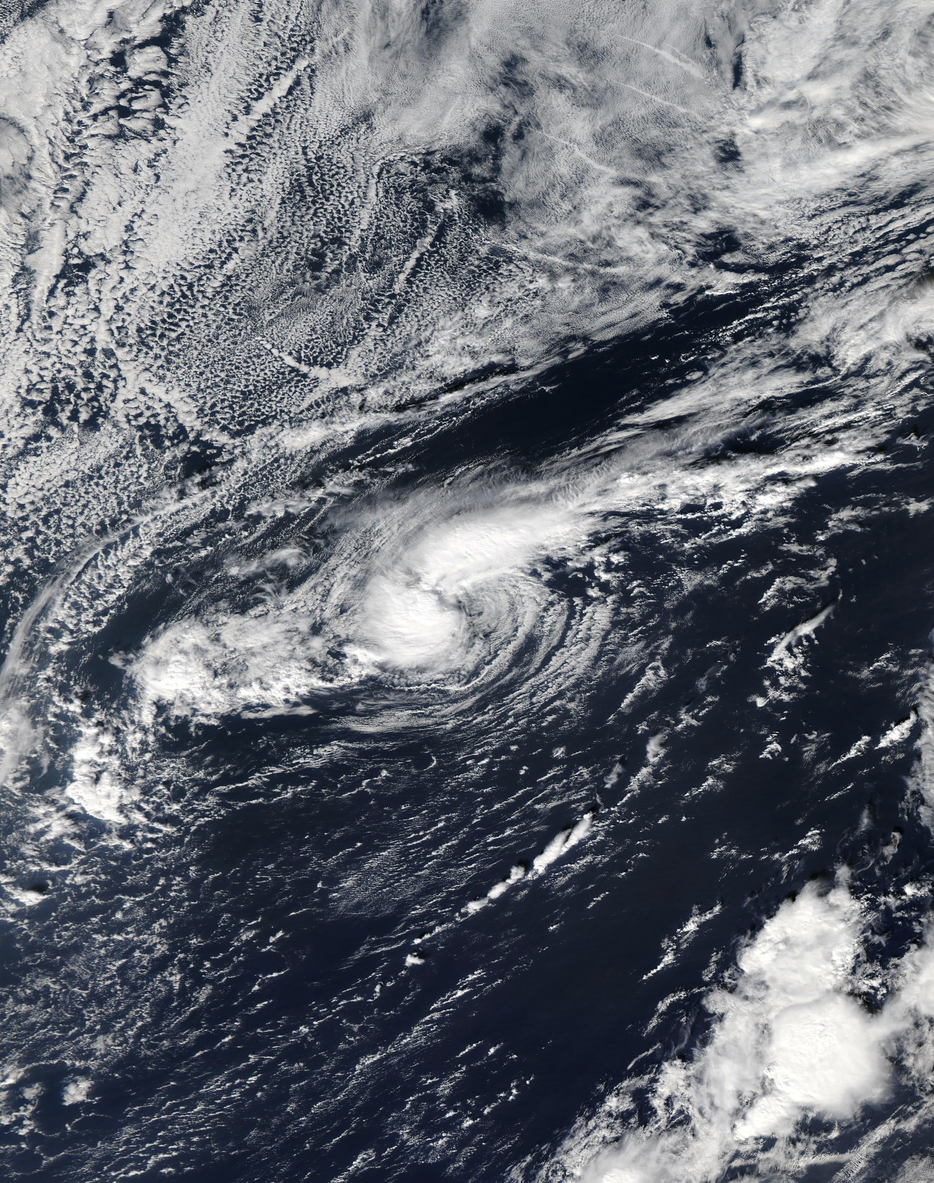 Subtropical Storm Rebekah on October 31, 2019